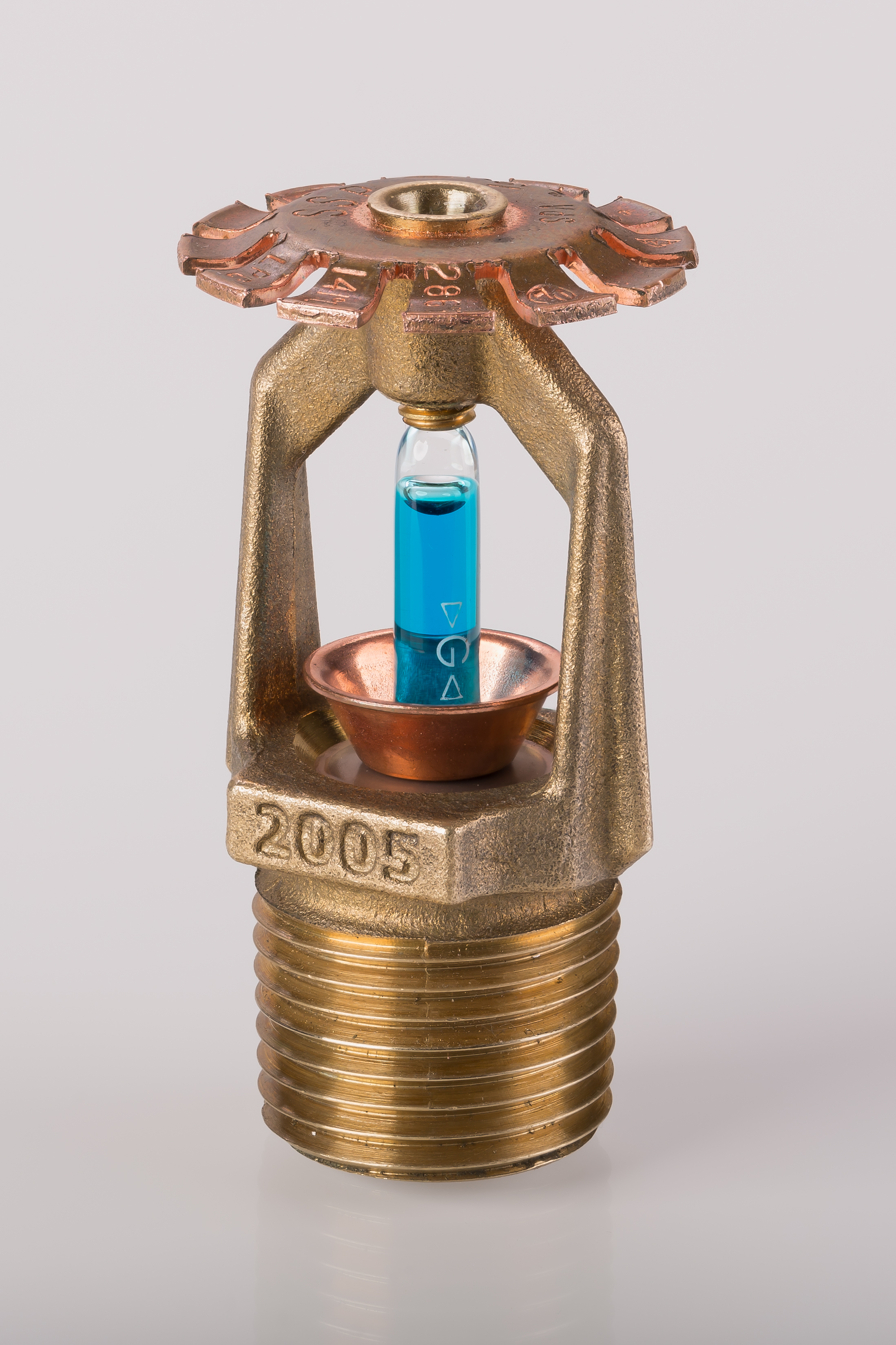 A TYCO standard spray sprinkler head. Release temperature 141 °C (268 °F) as indicated by the blue filling. Focus stacking of 22 pictures.